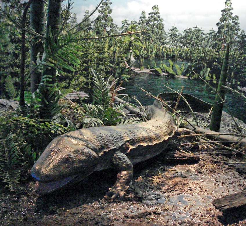 Diorama with a model reconstruction of Sclerocephalus, displayed at an exhibition at the State Museum of Natural History in Stuttgart (Germany) in 2009.